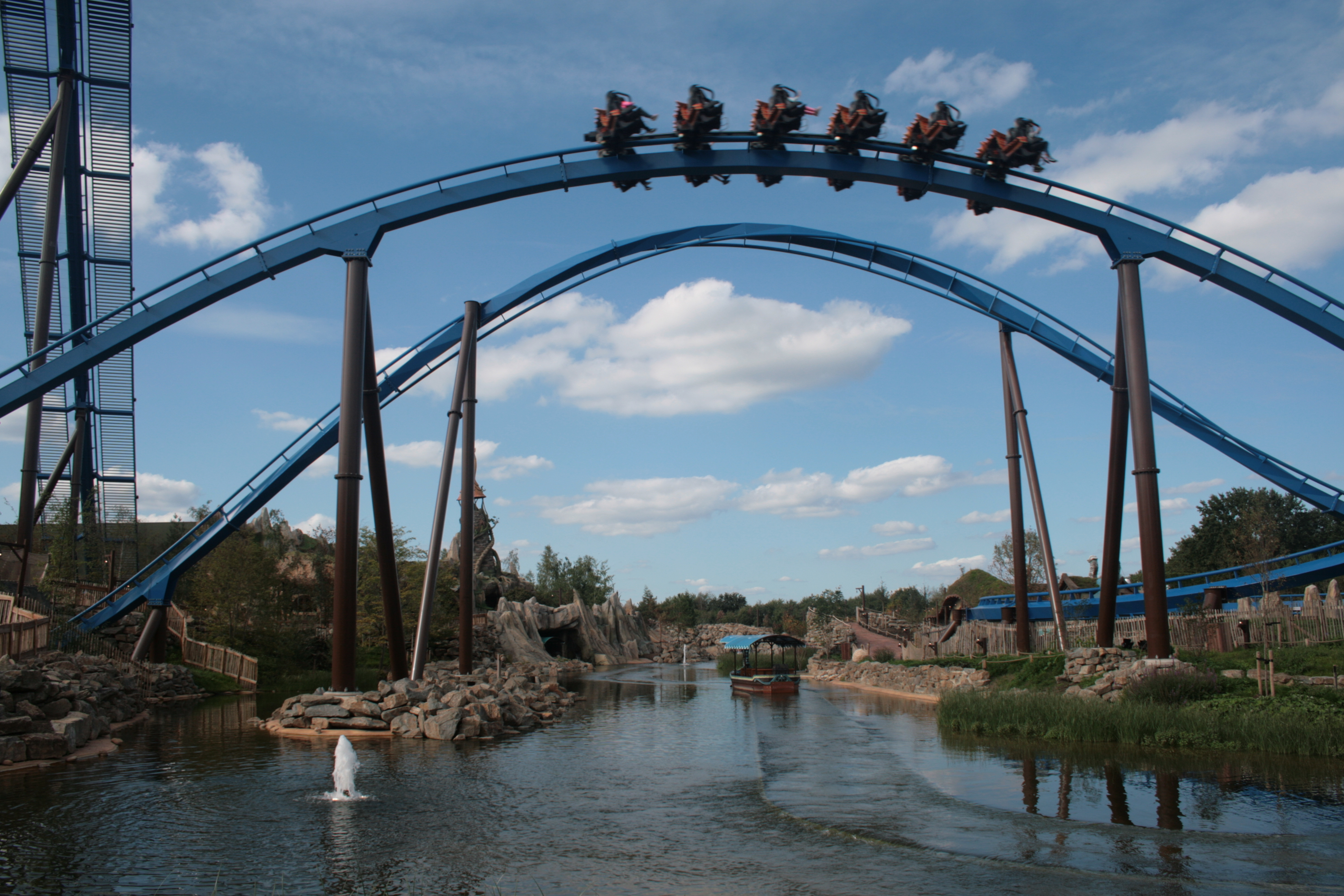 Theme area Avalon at Amusementspark Toverland.